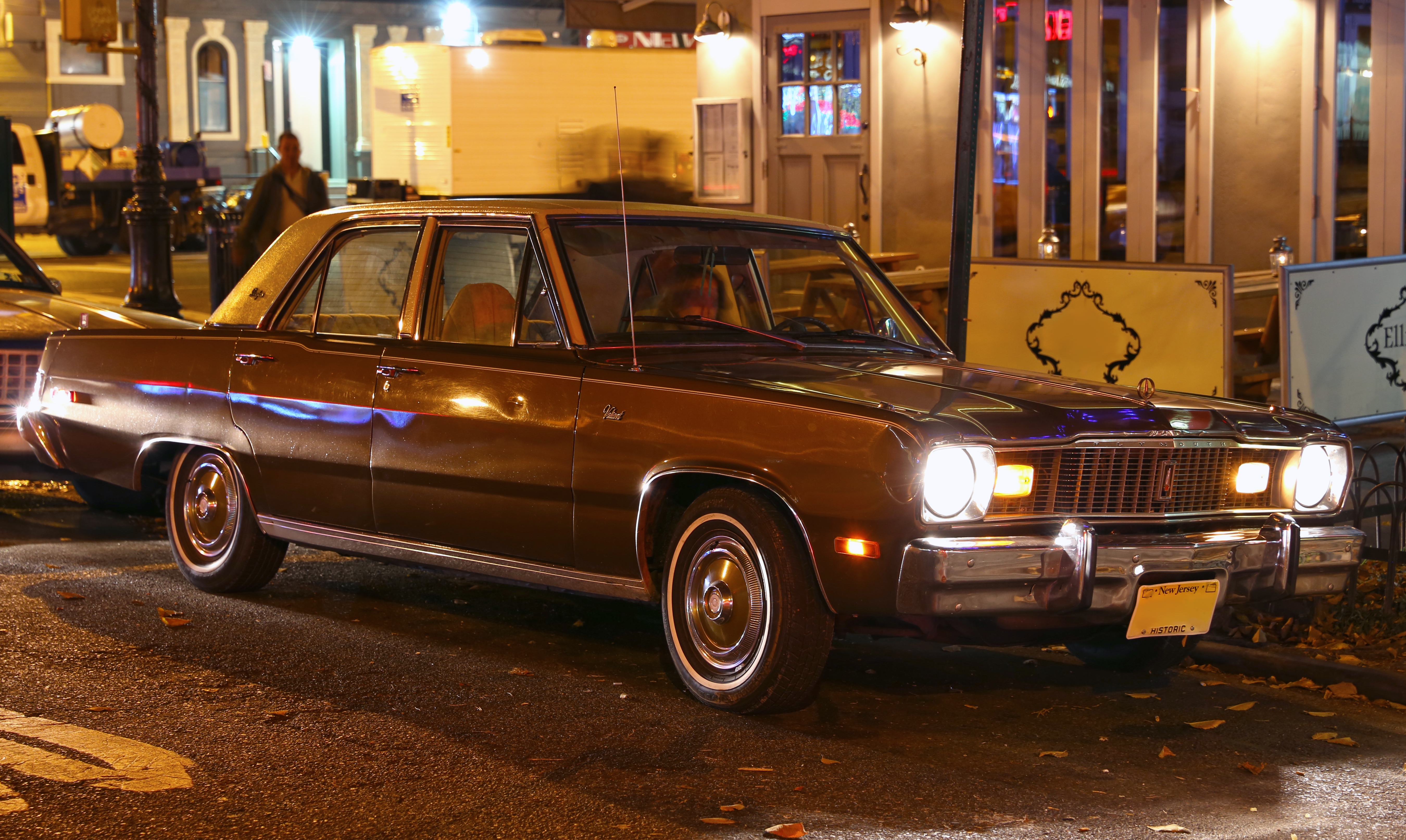 1975 Plymouth Valiant Brougham, in a suitable shade of brown. At the site of a film shoot in NYC's Upper West Side.